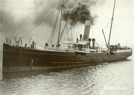 Fenella (I)